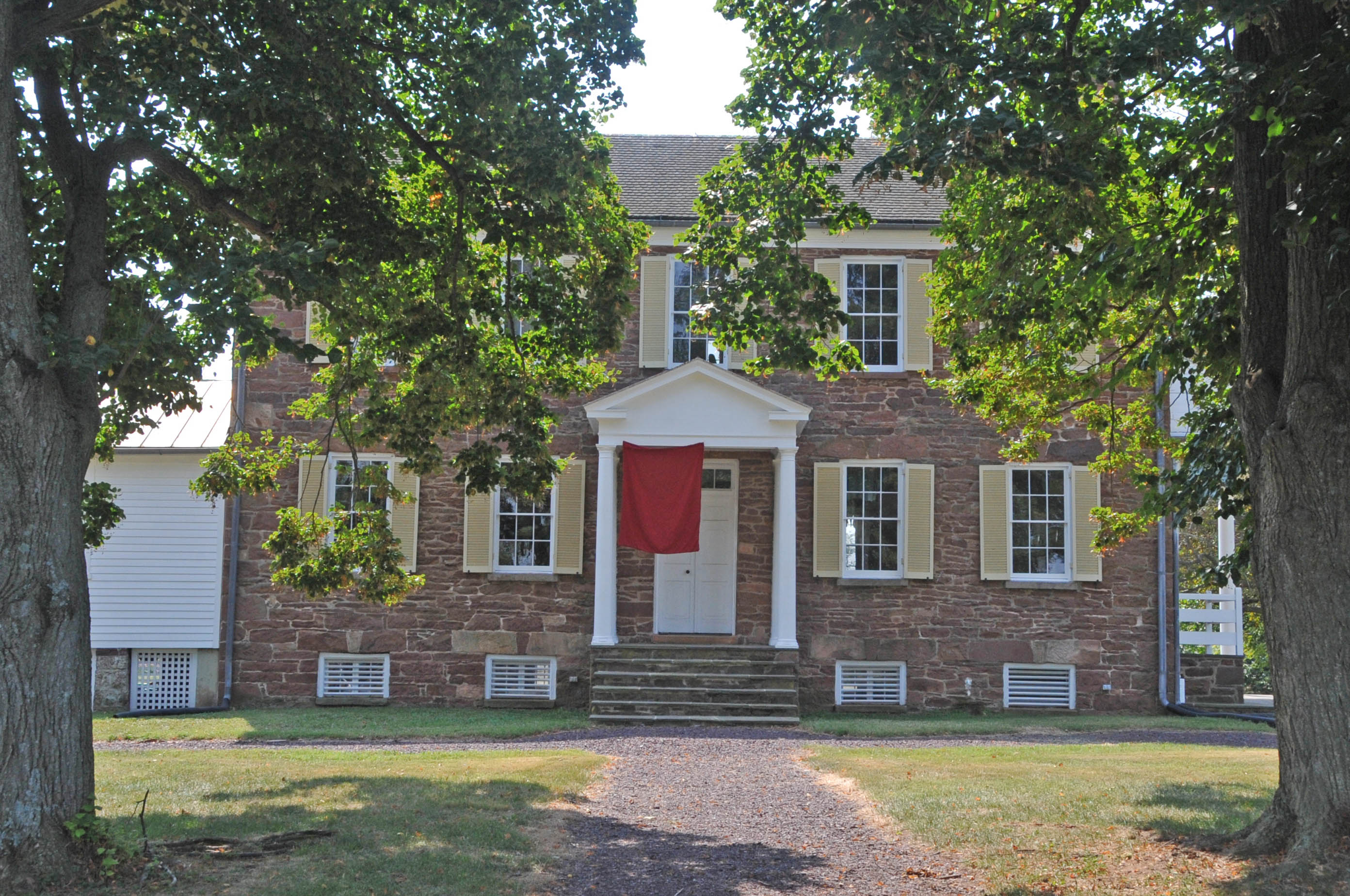 BUILT CIRCA 1830 BY BENJAMIN TASKER CHINN, A GRANDSON OF ONE OF THE CARTERS. USED AS A HOSPITAL DURING BOTH BATTLES OF MANASSAS